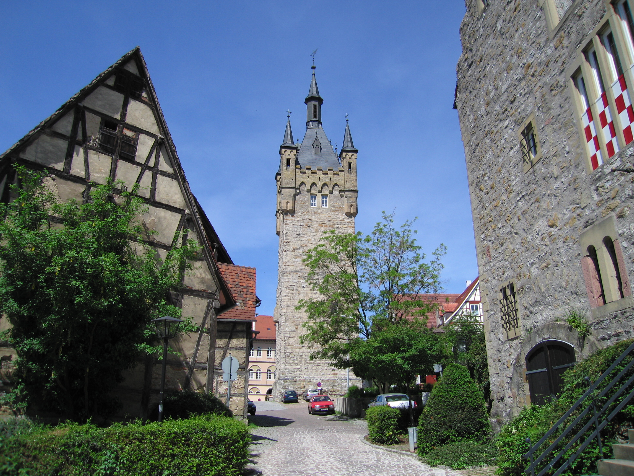 The Blauer Turm (Blue Tower) in Bad Wimpfen, Baden-Württemberg, Germany Author: John C. Watkims V